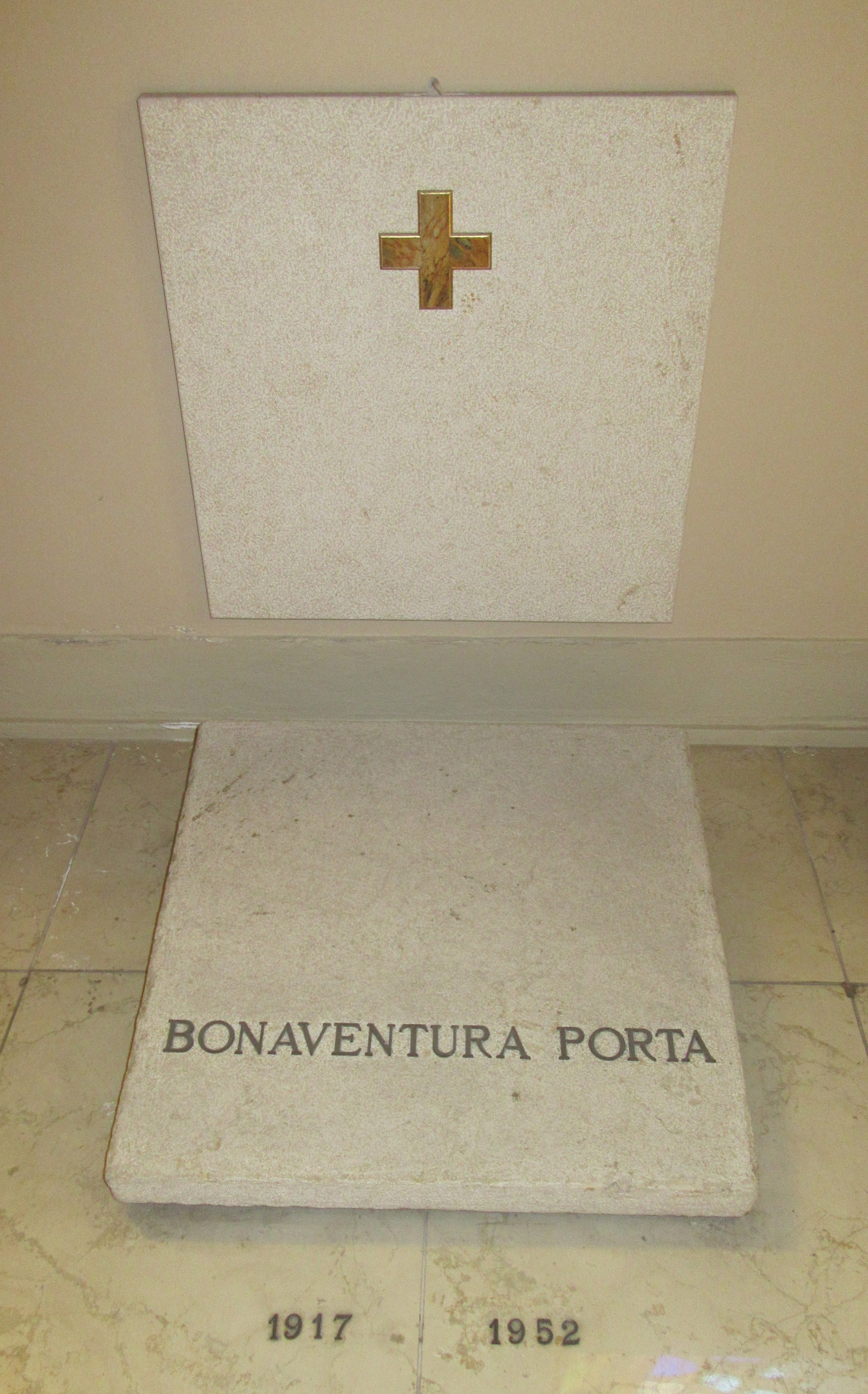 Grave of bishop Porta in Pesaro's cathedral